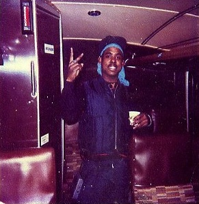 Silkski at age 21 going to LA from NY